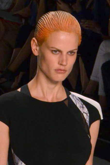 Saskia de Brauw at the SS2012 Narciso Rodriguez fashion show